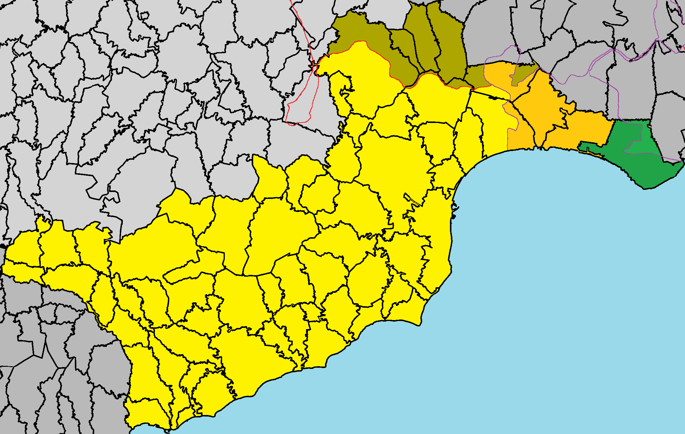 Xylofagou in Larnaca District.